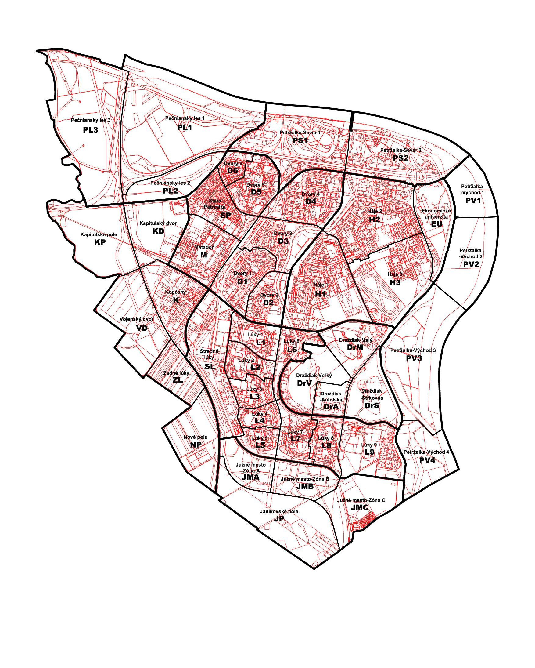 source data